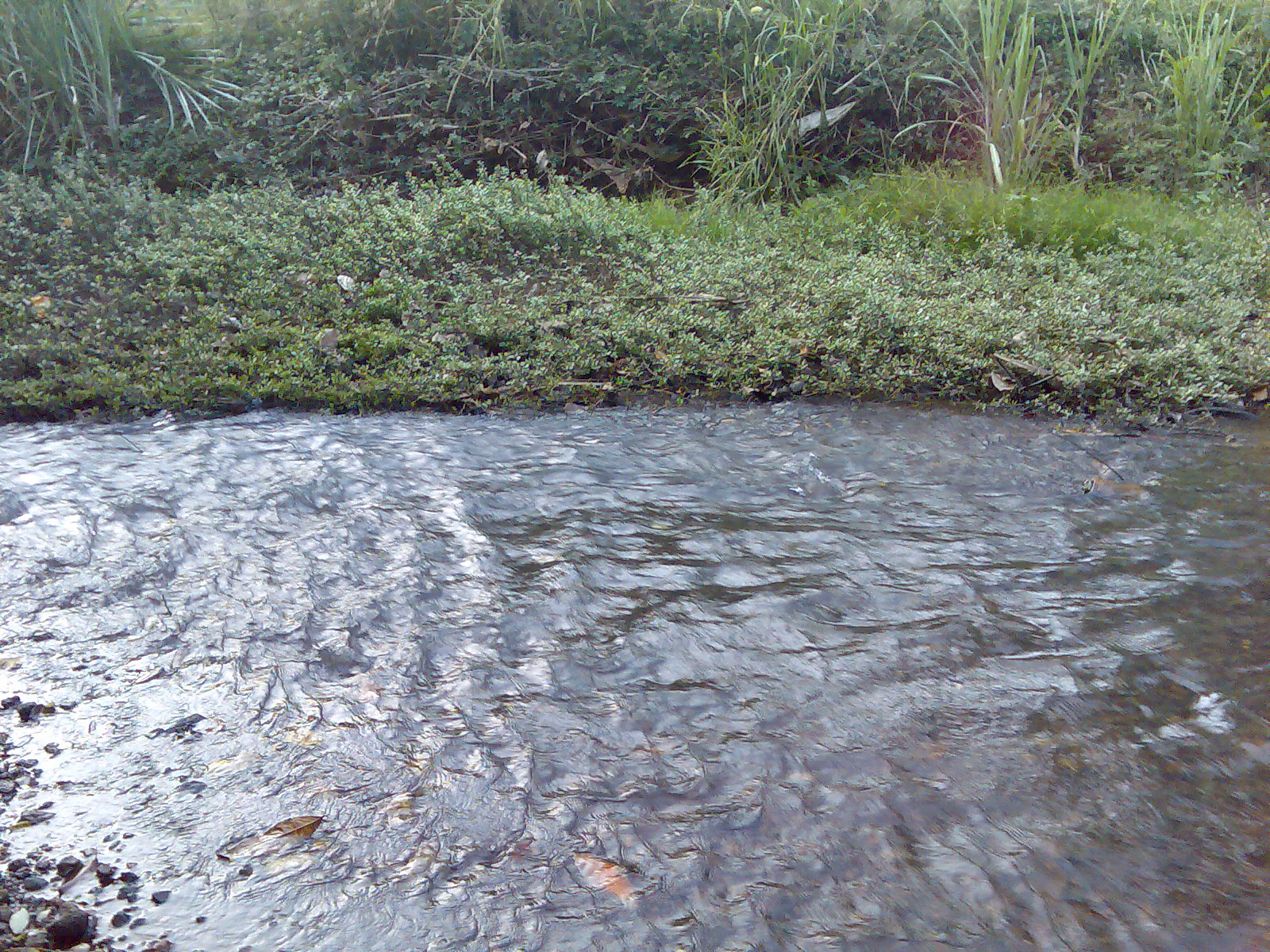 Shambhavi River